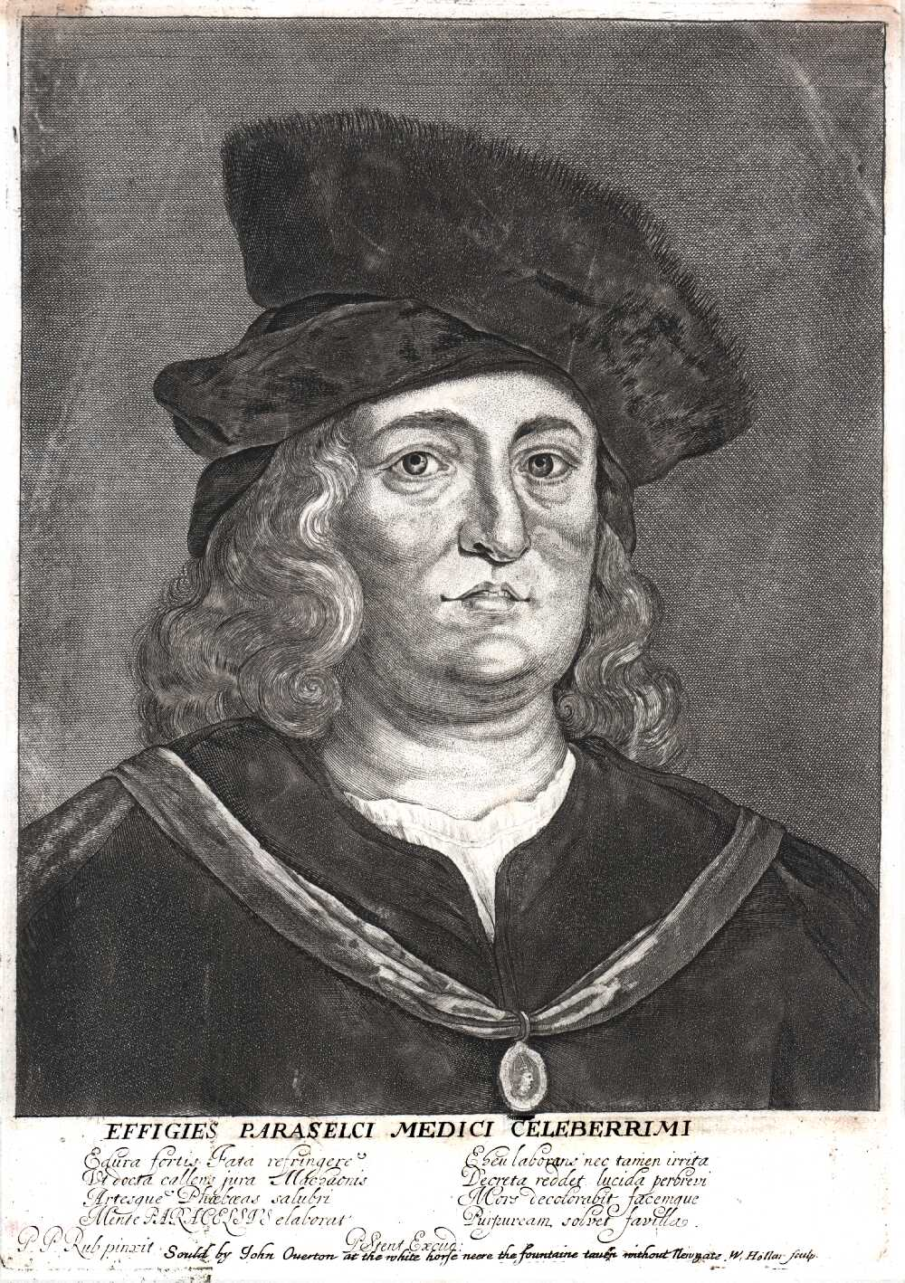 Scientist Paracelsus; Original P. P. Rubens, school of Metsys